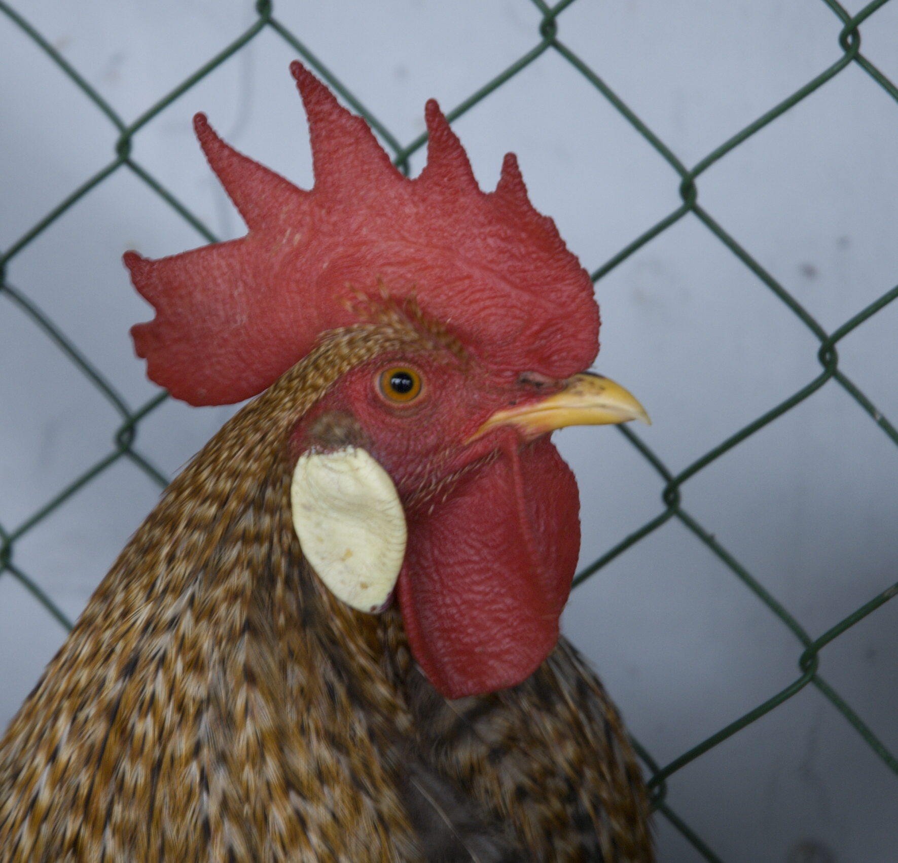 Leghorn, more precisely the Italiana, cream legbar variety. Portrait of a rooster.